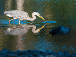 A heron hunts the shallow water at Spreckels Lake, Golden Gate Park, San Francisco, CA, USA - 27 June 2013